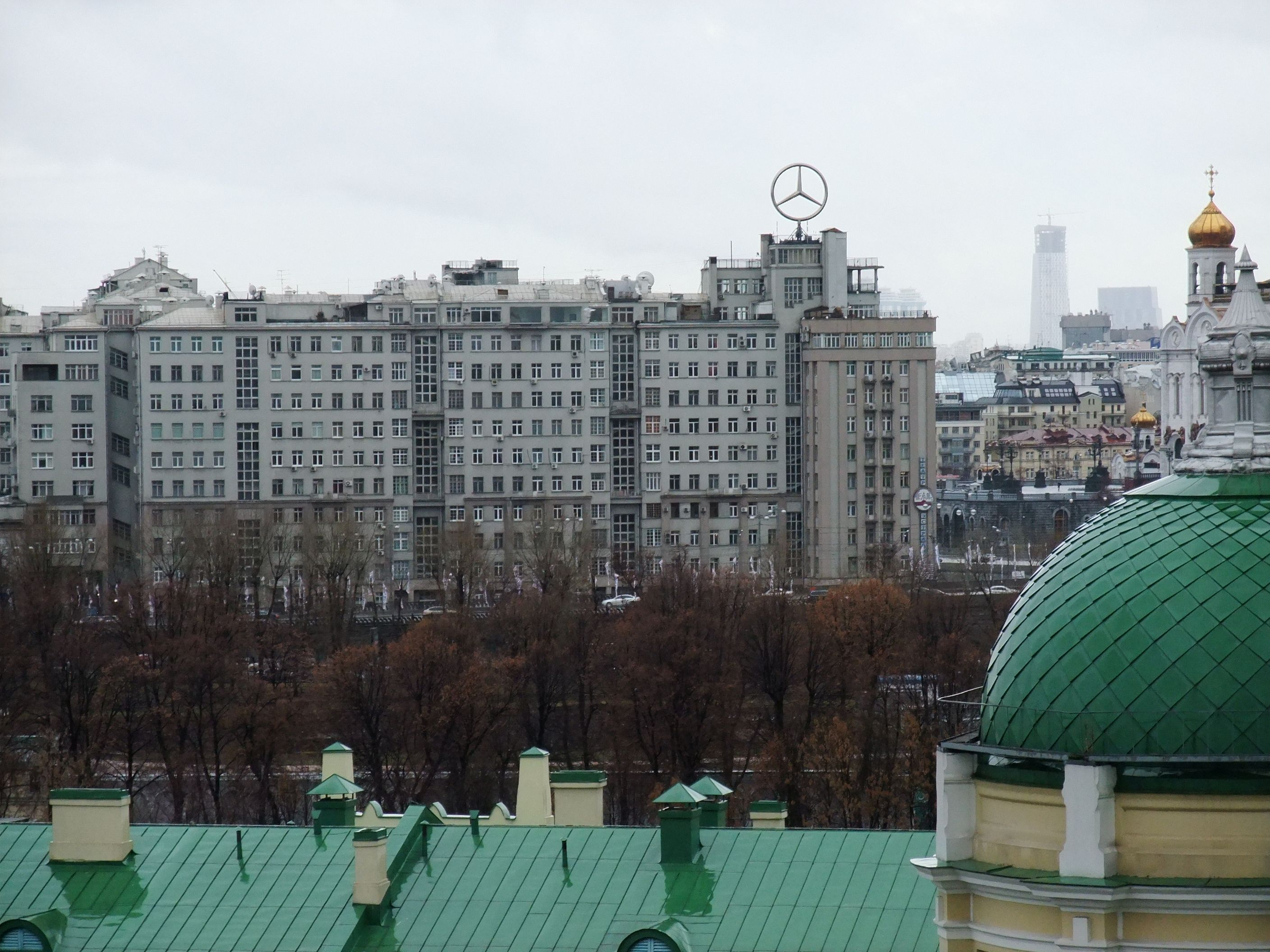 Улица Серафимовича Москва